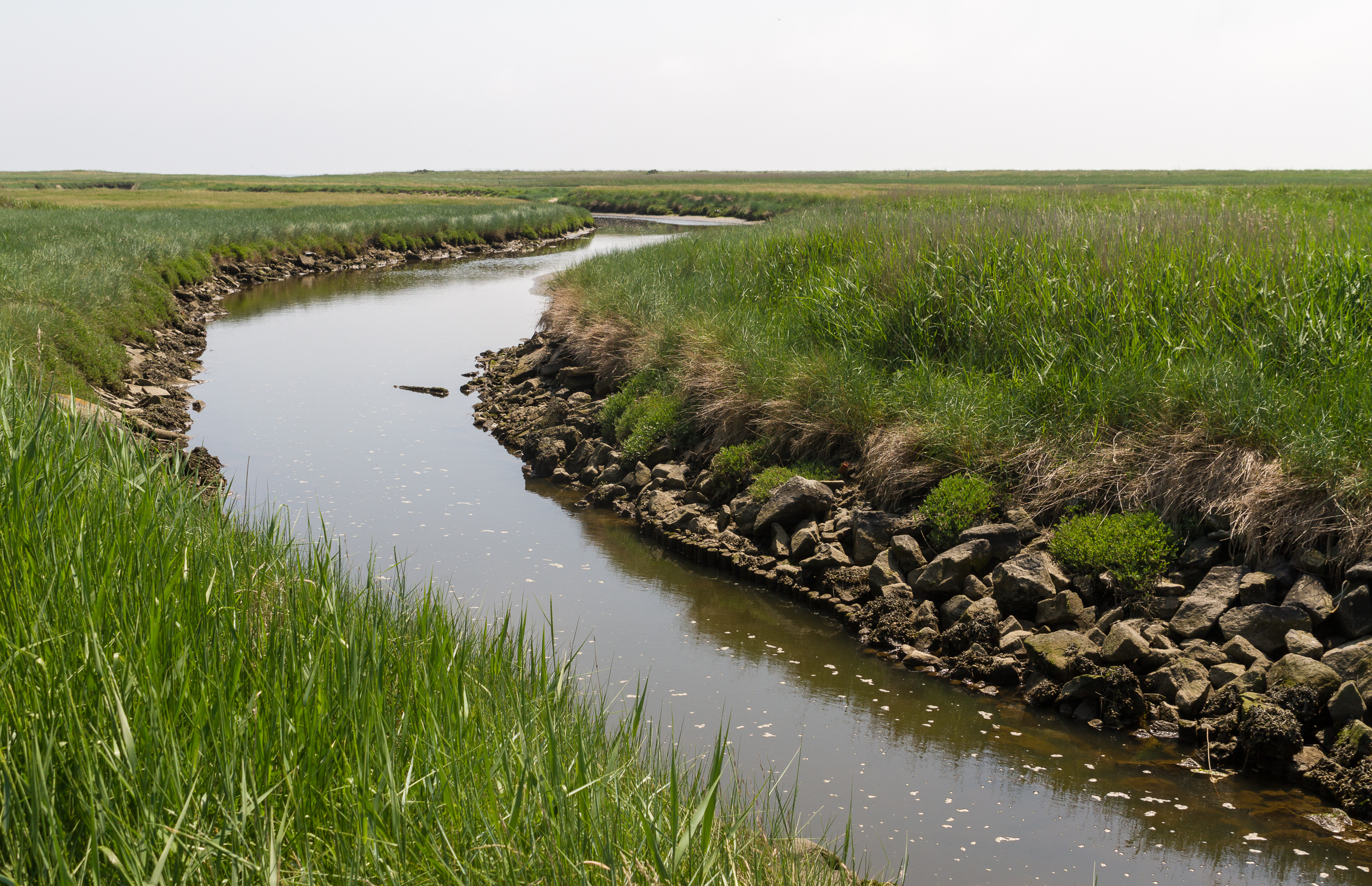 This is a picture of the protected area listed at WDPA under the ID 555537239 Designation: Godel lowland / Föhr Kind: Proposed Sites of Community Interest Nummer: DE-1316-301 Designation: Ramsar Convention Schleswig-Holstein Wadden Sea and adjacent coastal areas Kind: Bird reserve Nummer: DE-0916-491 Description: On the south coast of the island of Föhr, the creeks Godel, Wiel and Luer brings salt water in the lowland unprotected by levee below the edge of the geest. It is a extended salt marsh landscape in lagoon location which is crossed by the stream Godel. The lowland area is an important bird breeding and resting area. Place: Municipality Witsum, Collective municipality Föhr-Amrum, District Nordfriesland, Schleswig-Holstein, Germany Location: Klavertsweg